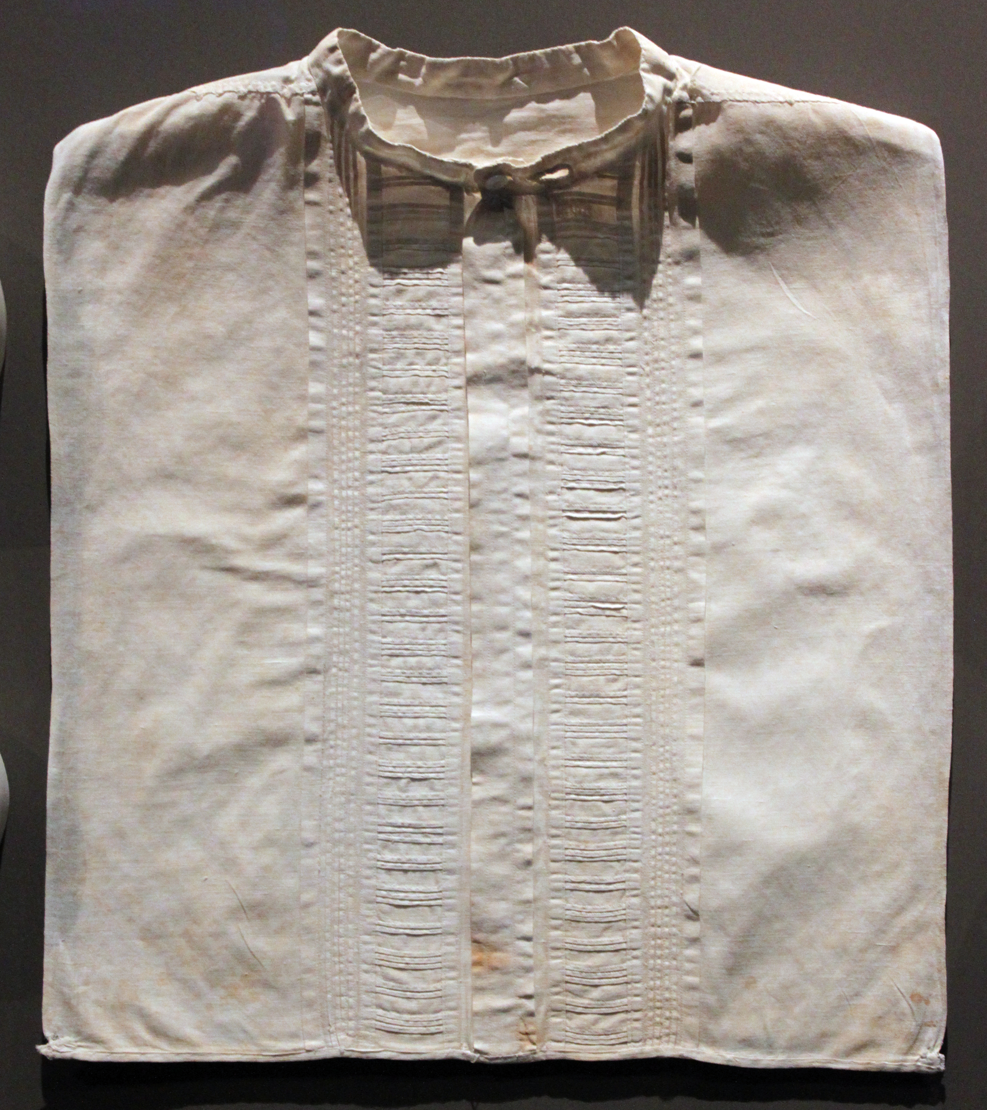 Dickey, 1915; Germanic National Museum in Nuremberg